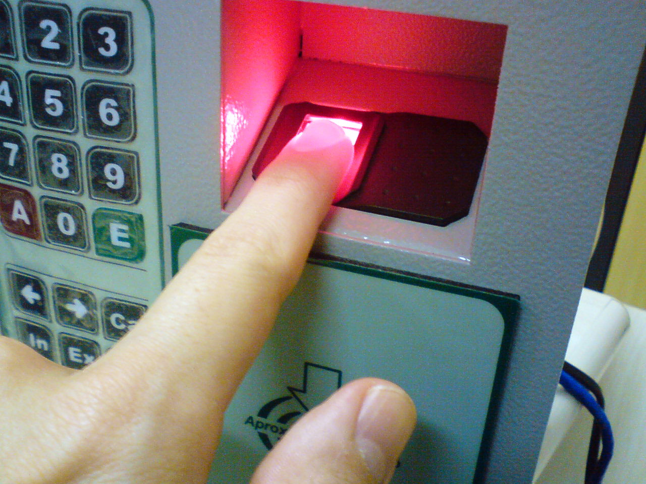 Fingerprint scanner identification on a Government building in Brazil.